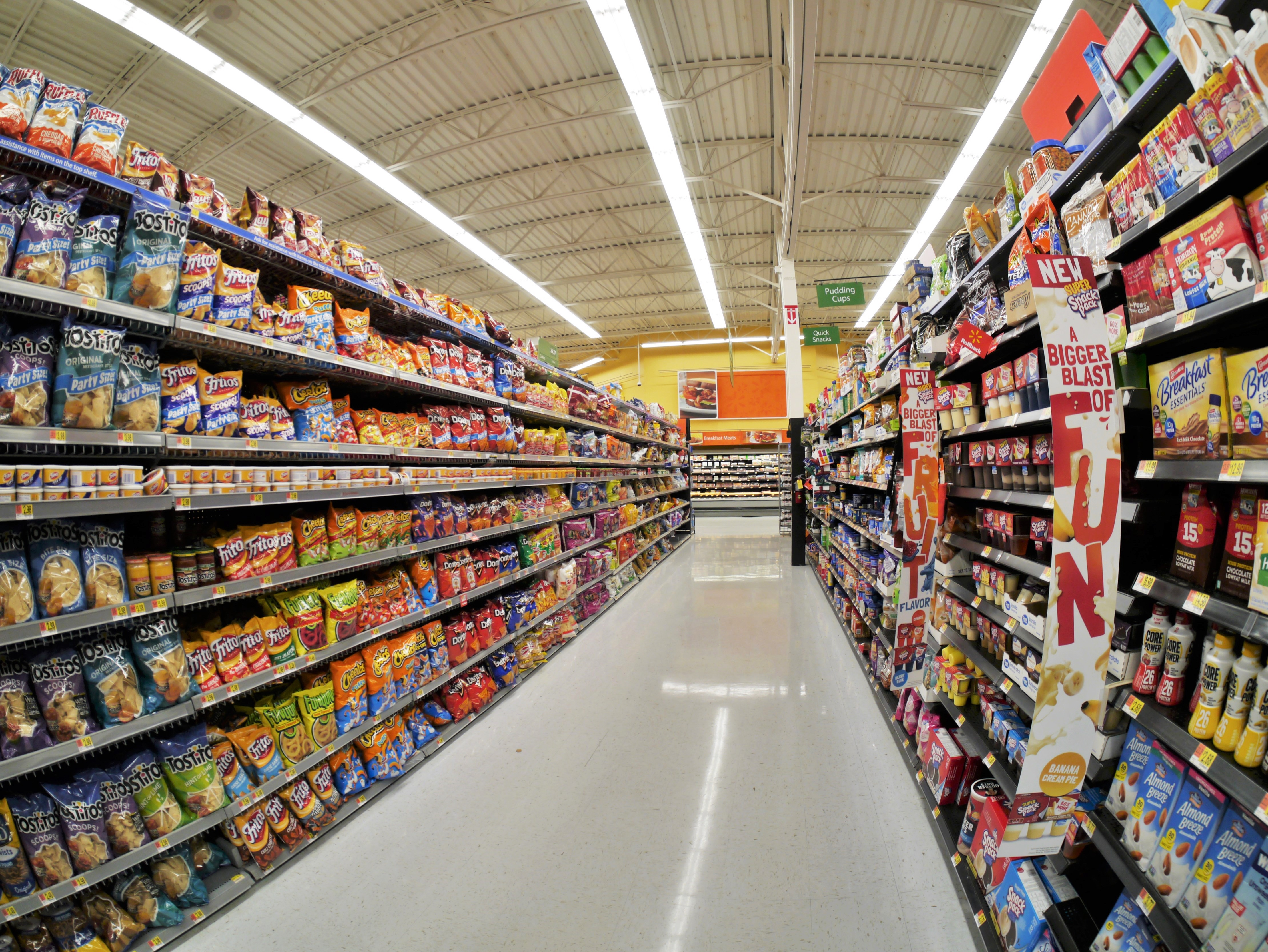 Potato chips and other junk food in Walmart, Wenatchee Washington